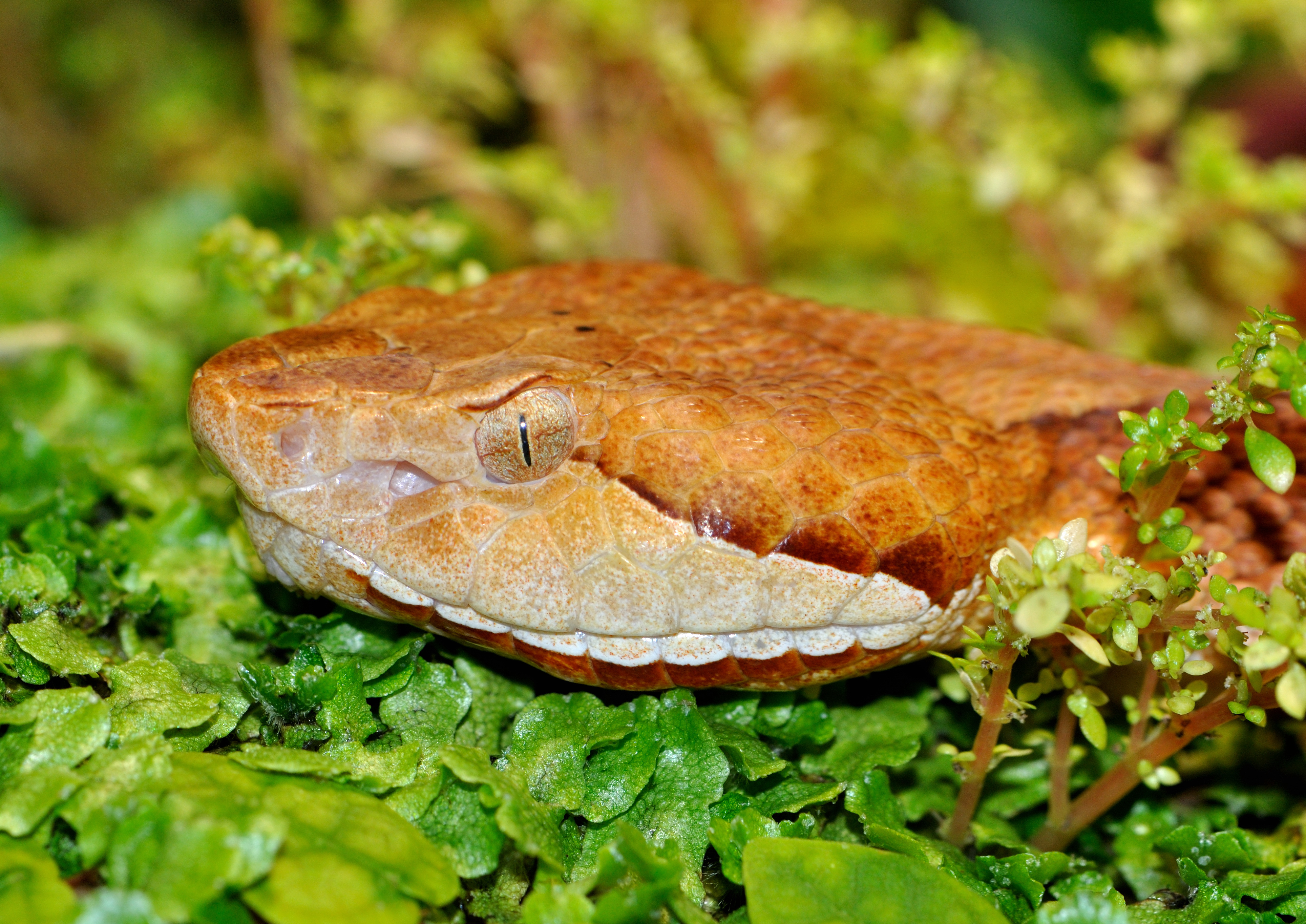 Copperhead (Agkistrodon contortrix) in the Tierpark Hellabrunn, Munich, Germany.